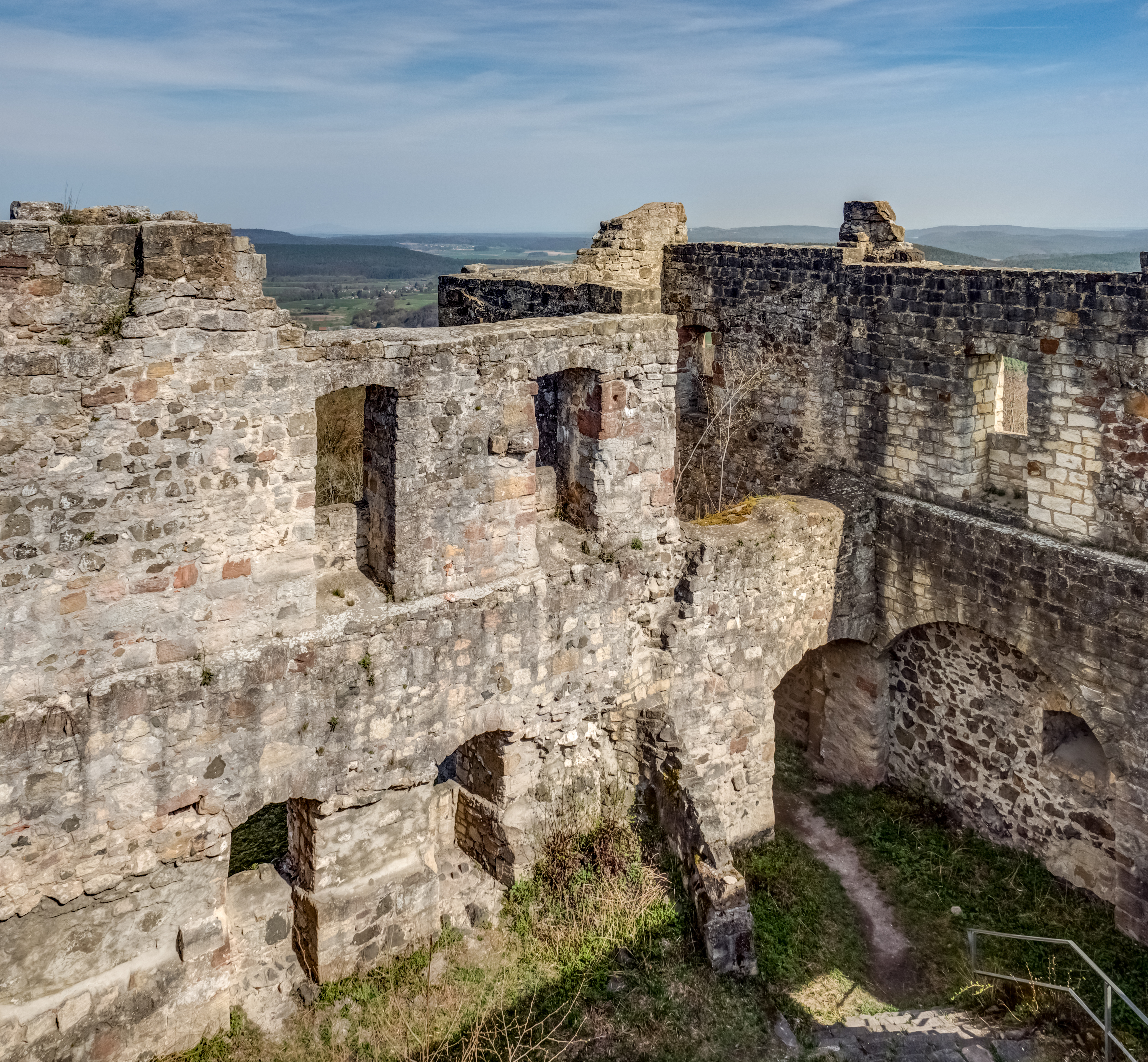 Main building of the Bramberg ruin